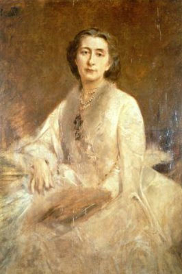 A formal portrait in oils of Frau Cosima Wagner (1837-1930), wife of the composer Richard Wagner